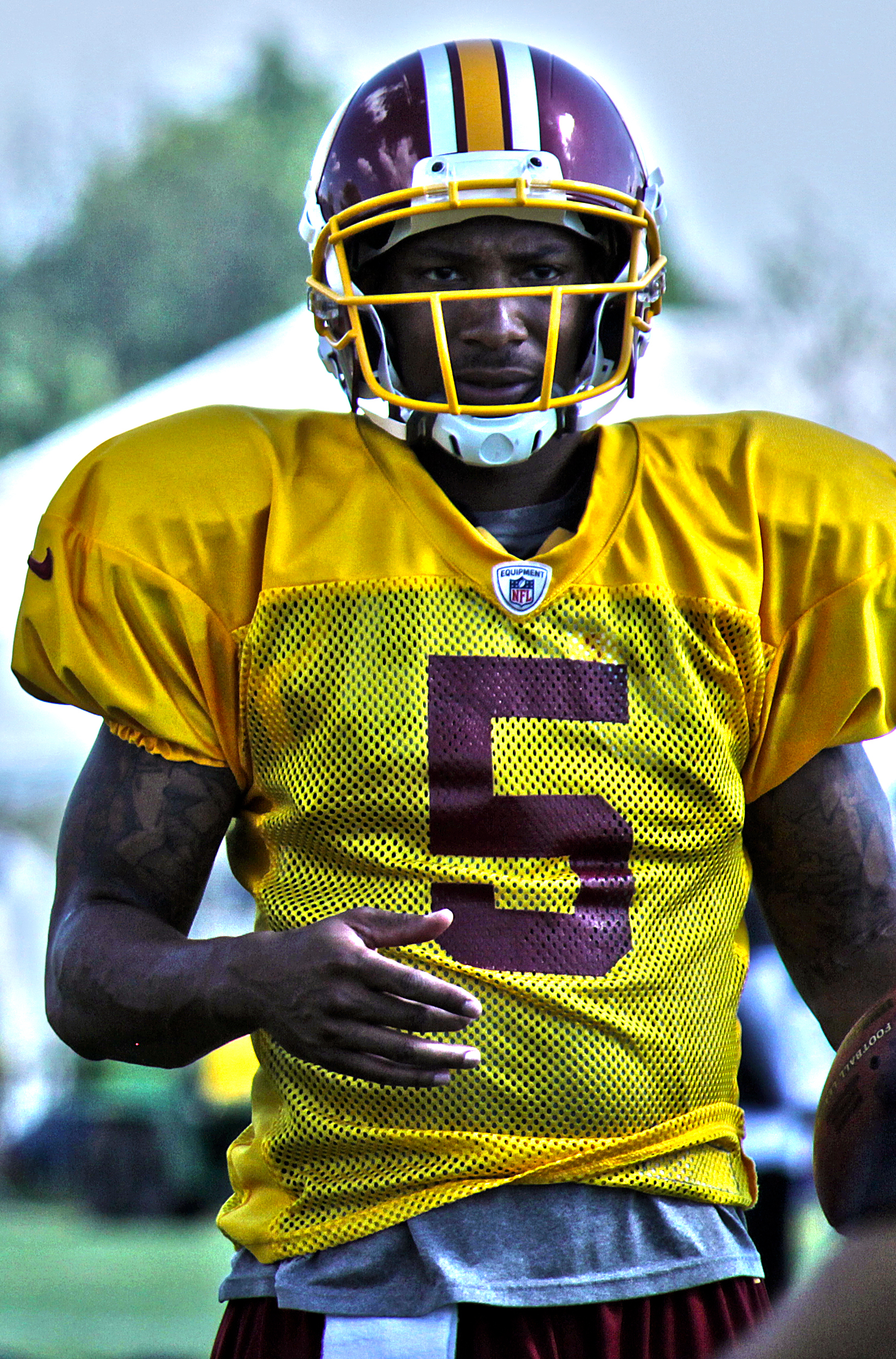 Quarterbacks Kirk Cousins and Pat White of the Washington Redskins.